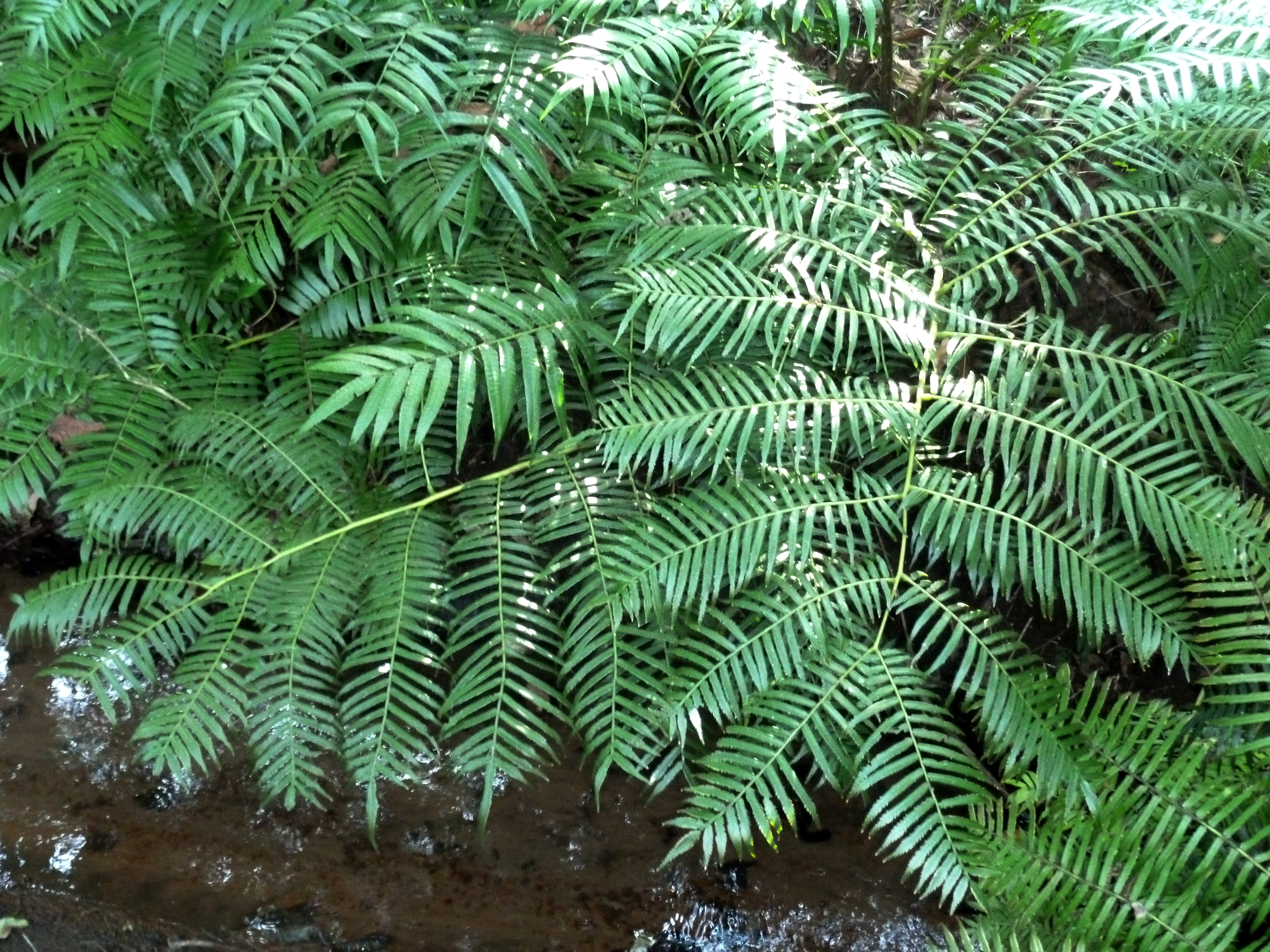 Habit of a Willow-leaf ash fern on the bank of the mPhiti stream in the Iphithi Nature Reserve in Gillitts, KwaZulu-Natal